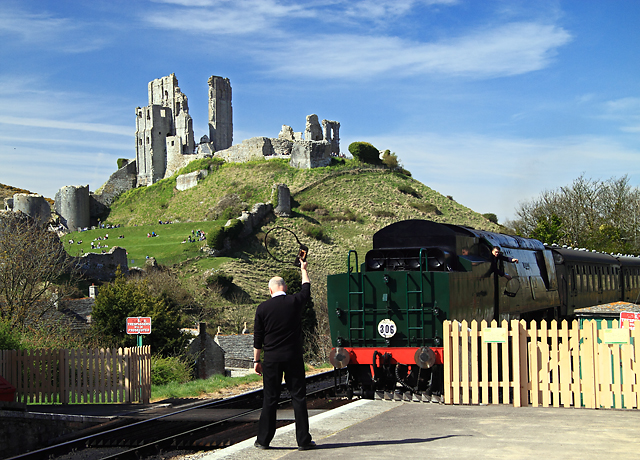 Token exchange at Corfe Castle I'm sure any railway buff would know what this procedure is all about, but I believe it involves the exchange of tokens by the train driver and the signalman. Once completed, the driver then has the authority to proceed onto that particular section of single line track recorded on the token. A dated practice by modern standards, but one still being put to good use by the operators of the Swanage Railway.